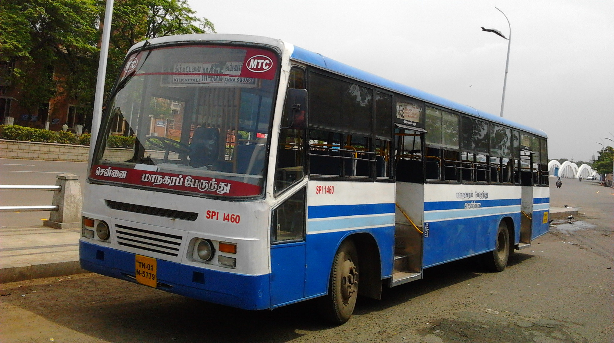 Chennai Metropolitan Transport Corporation's ordinary fare bus parked at the Anna Square Bus stand.